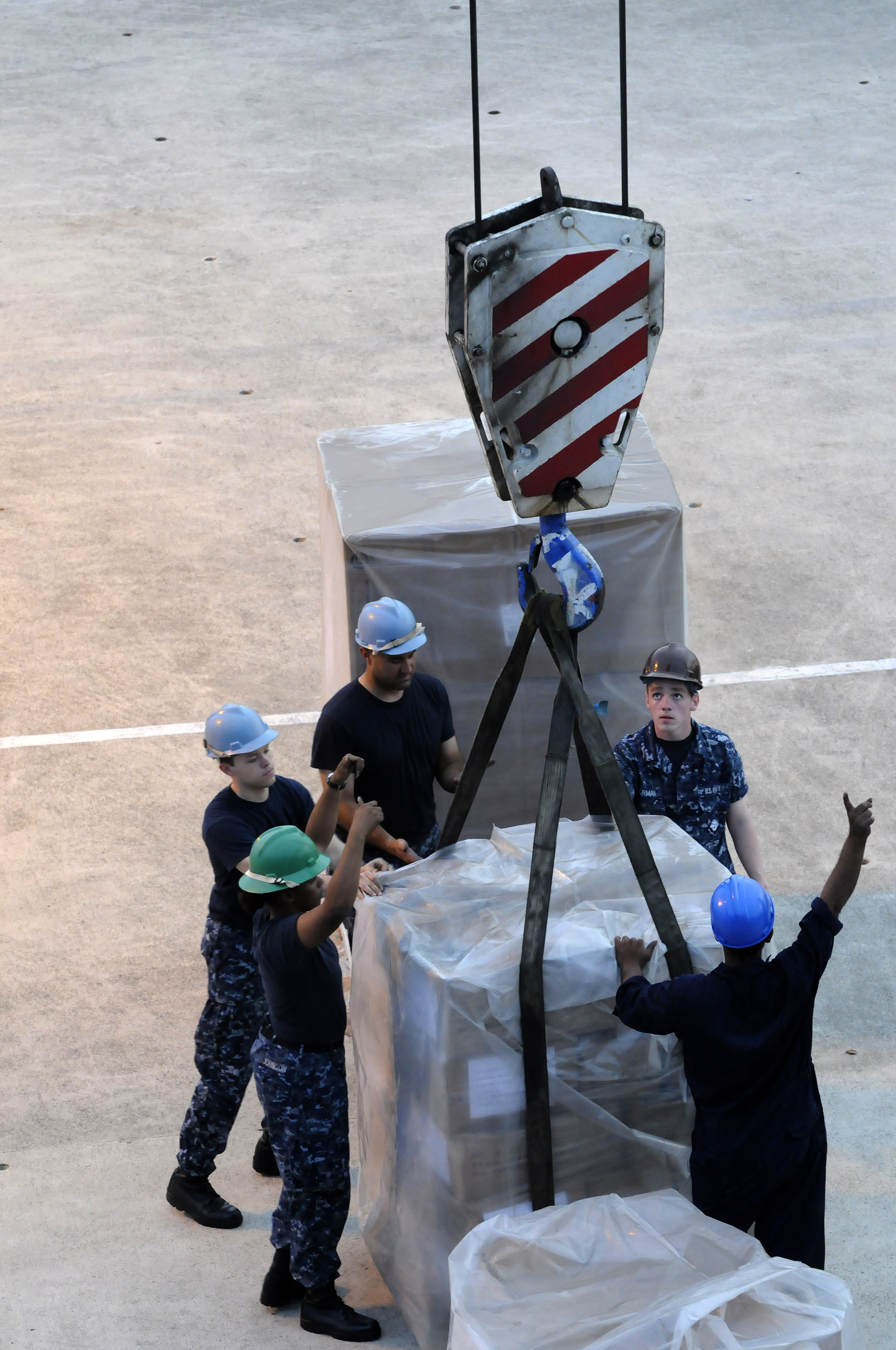 Sailors assigned to the U.S. 7th Fleet command ship USS Blue Ridge (LCC 19) load humanitarian assistance supplies in Singapore to ensure the ship and crew are ready if directed to support earthquake and tsunami relief operations in Japan.